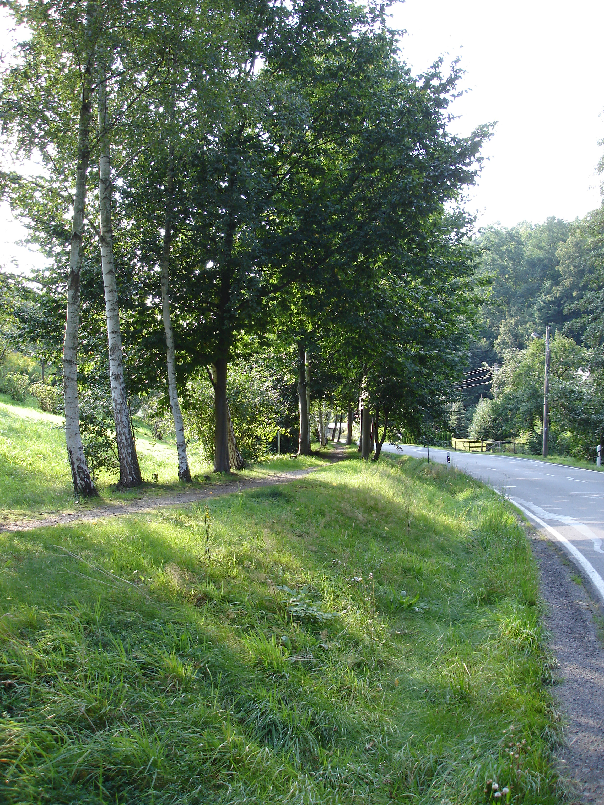 Narrow gauge railway Freital-Potschappel–Nossen, Saxony, Germany